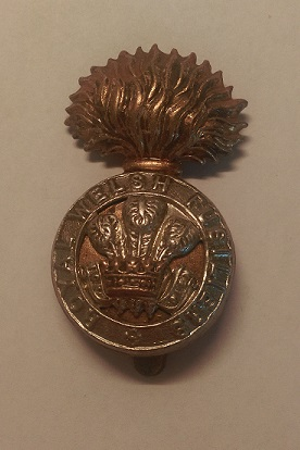 Photo of Royal Welsh Fusiliers Cap Badge from personal collection